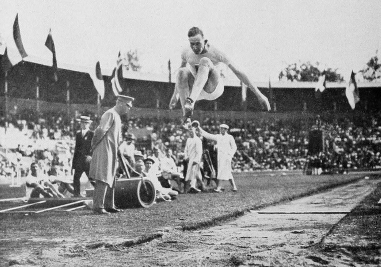 Albert Gutterson during the long jump competition at the 1912 Summer Olympics